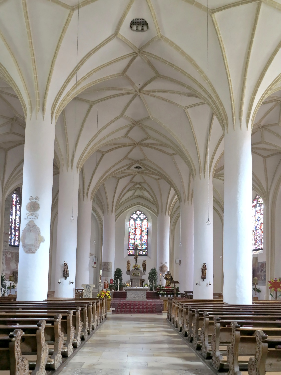 Church Stadtpfarrkirche St. Jakob